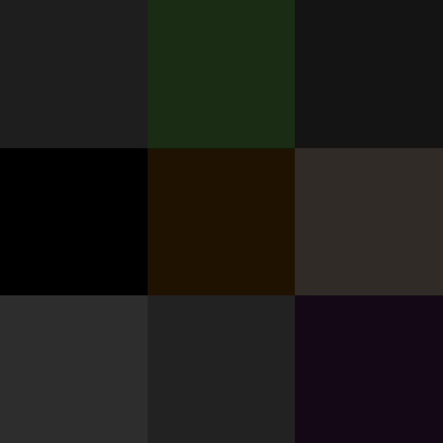 Shades of black